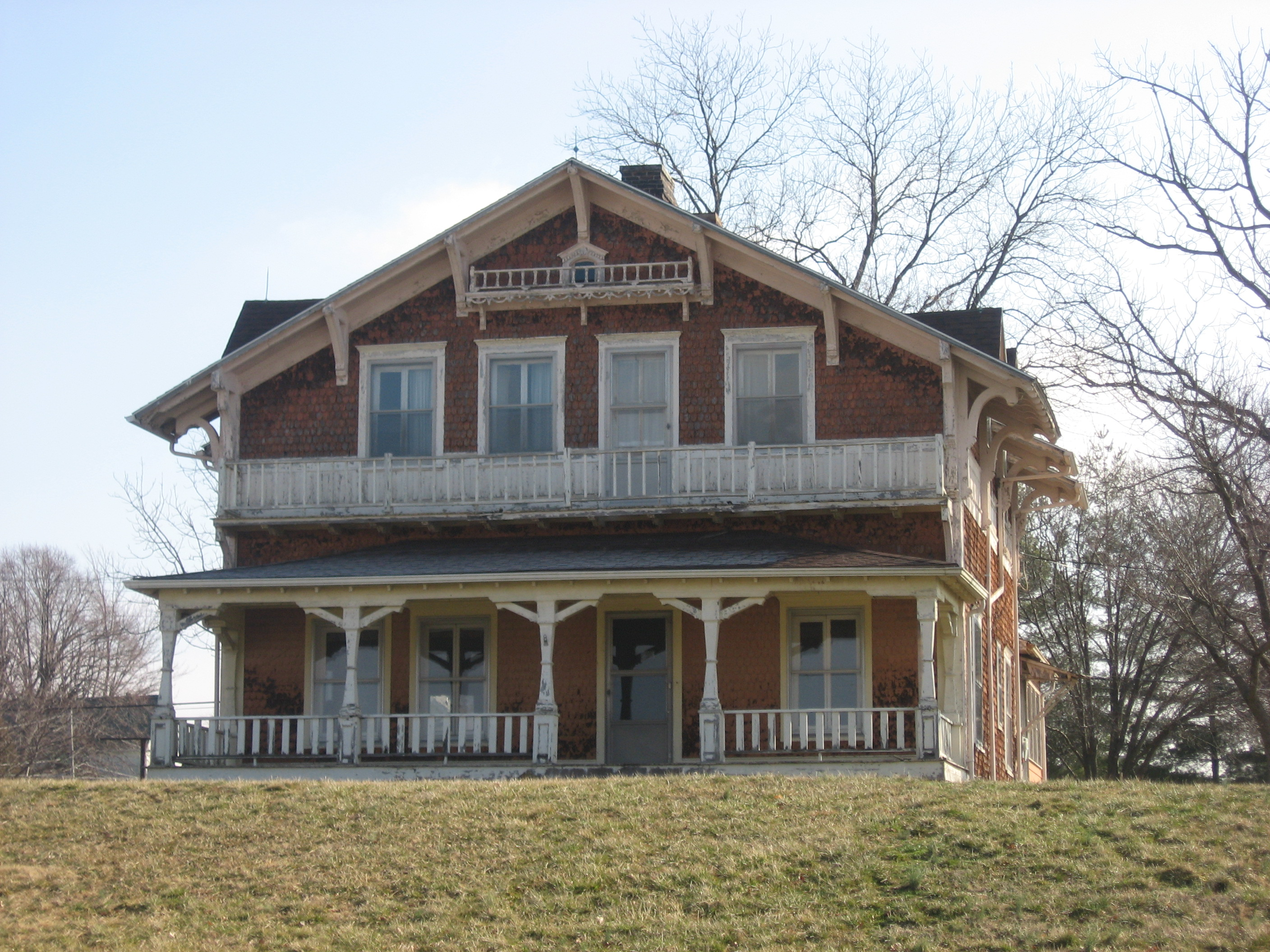 Front and southern side of the Dr. Alois Wollenmann House, located at 1150 Main Street (Indiana State Road 162) in Ferdinand, Indiana, United States. Built in 1903, it is listed on the National Register of Historic Places.